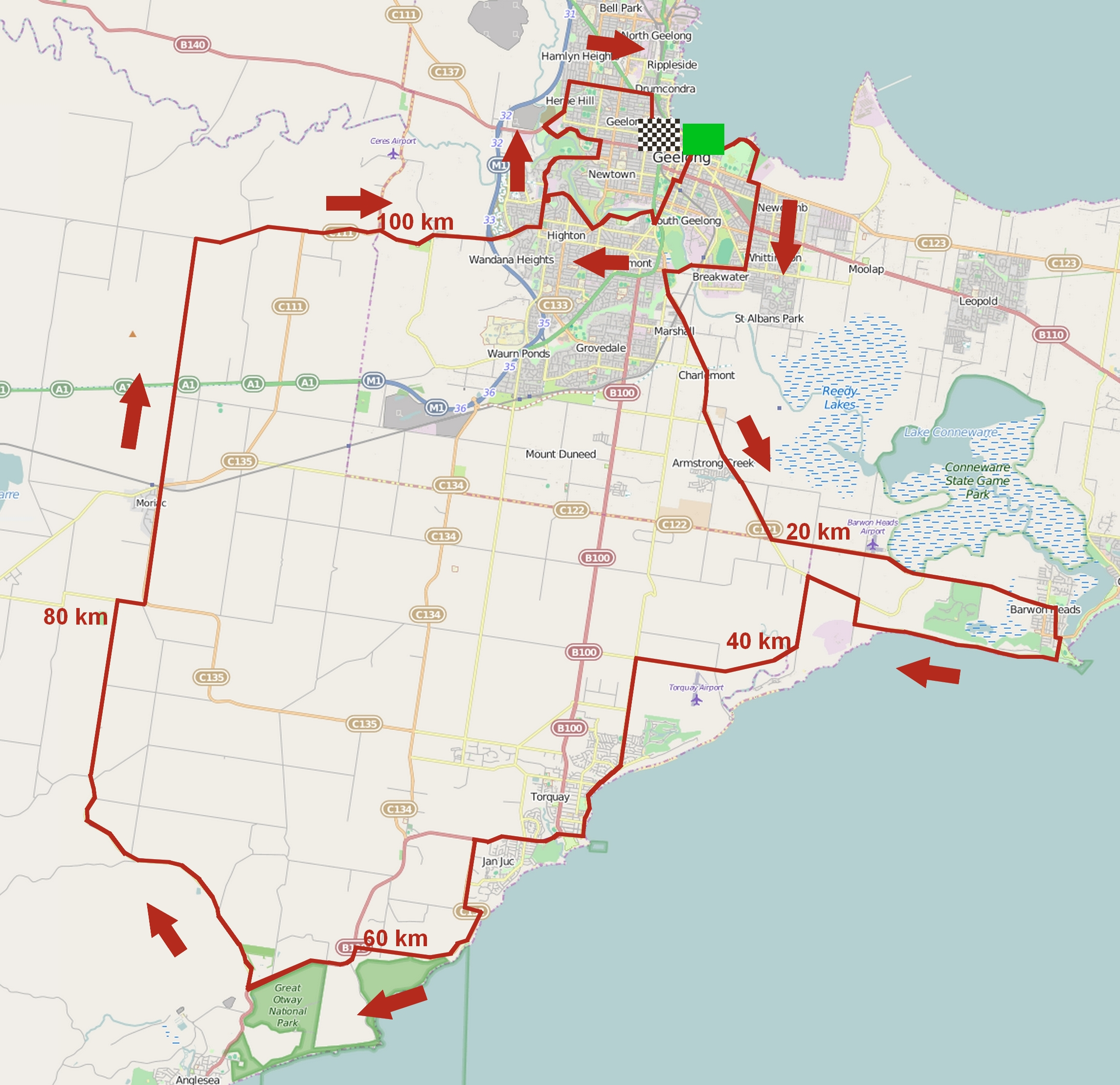 Parcours de la Cadel Evans Great Ocean Road Race 2015. This map may be incomplete, and may contain errors. Don't rely solely on it for navigation.